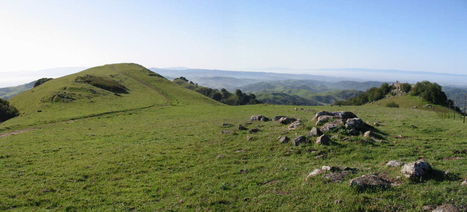 stitched panorama photograph of the view looking south at the junction of Rocky Ridge and Sycamore at Las Trampas Regional Wilderness